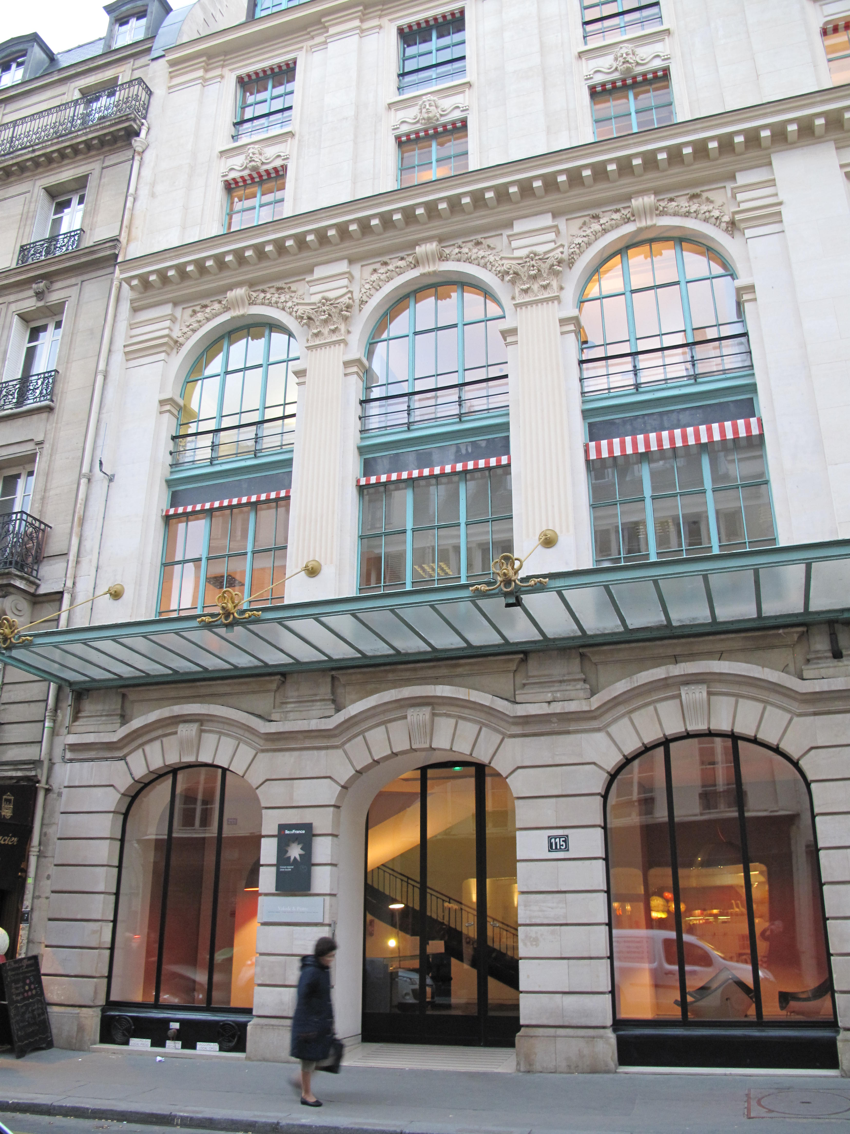 The building of 115 rue du Bac, Paris 6th arrond. Head office of the architecture firm Valode & Pistre.